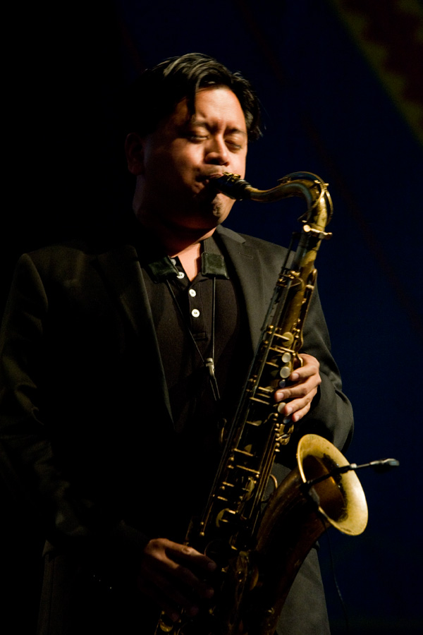 Jon Irabagon, moers festival 2011